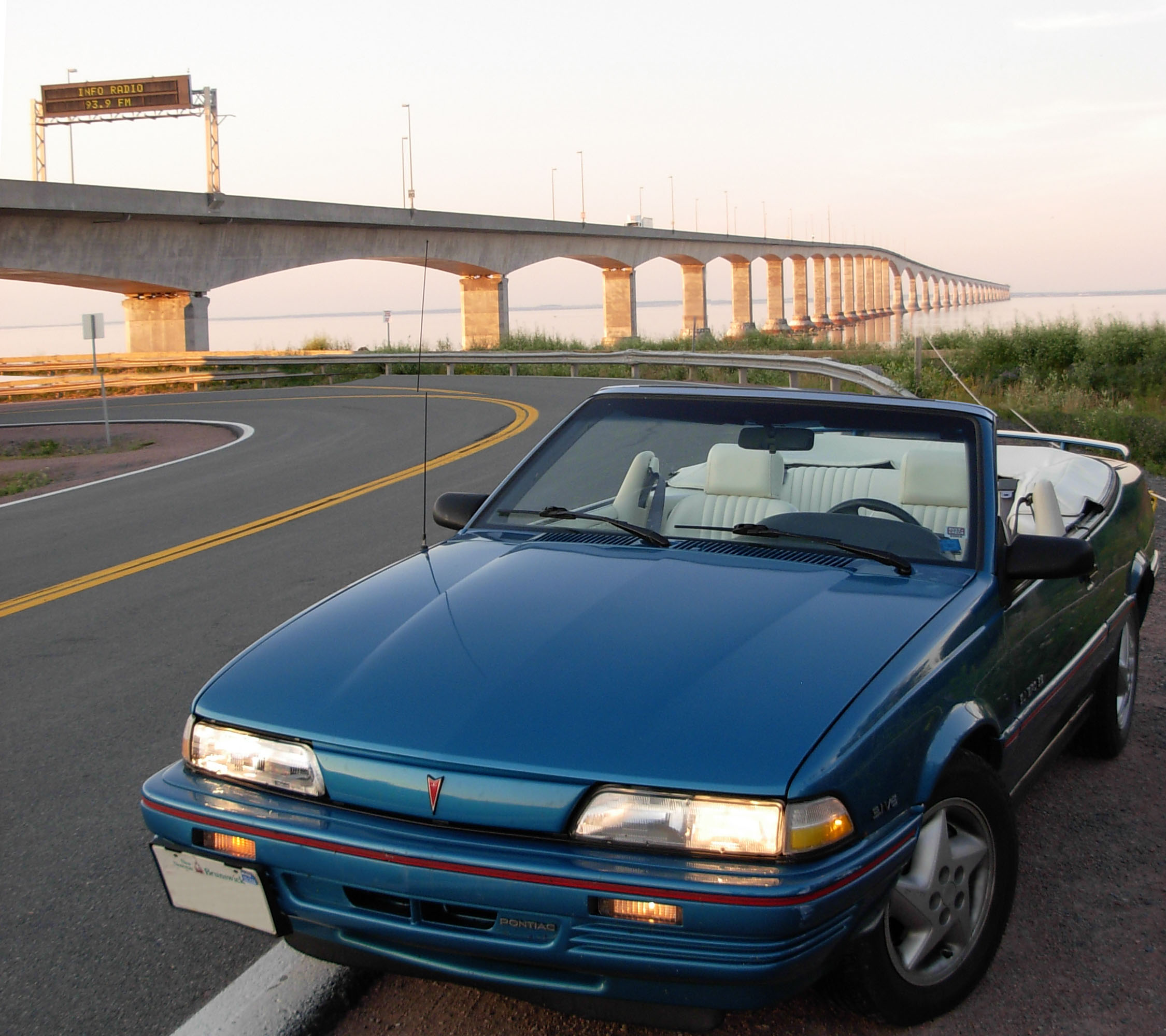 1992 3.1L V6 Pontiac Sunbird SE Convertible. Picture taken by me near the Confederation Bridge, which spans between New Brunswick and Prince Edward Island